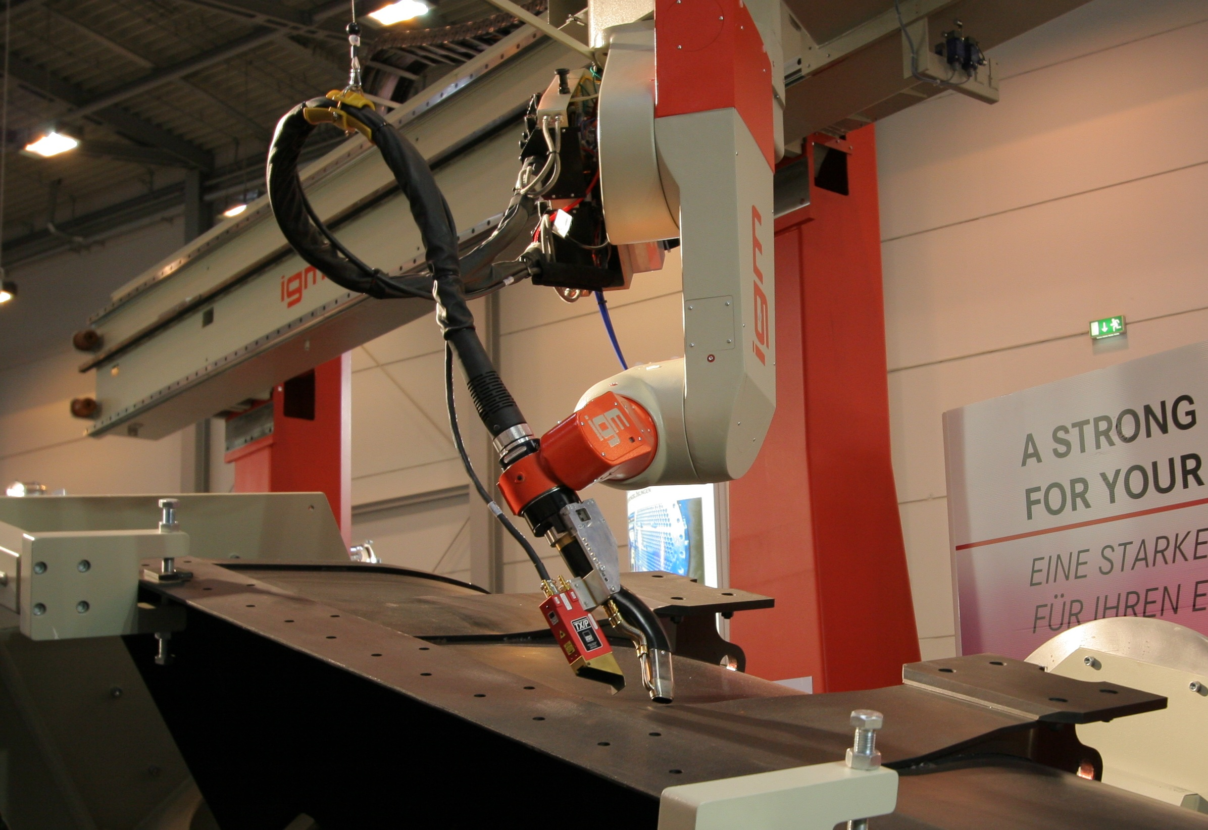 Essen,Welding show. tandem with lazer sensor.